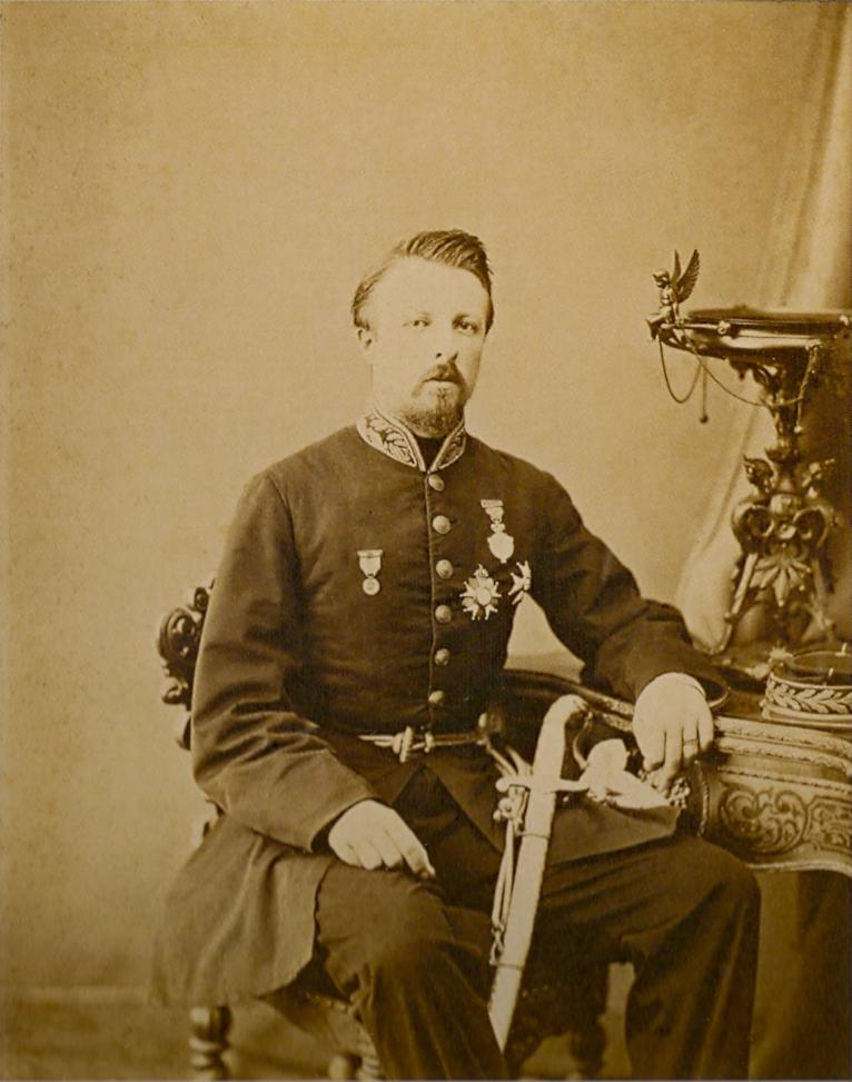 Gaston d´Orleans, comte d´Eu, husband of Isabella, Princess Imperial of Brazil in Rio de Janeiro, ca.1870.